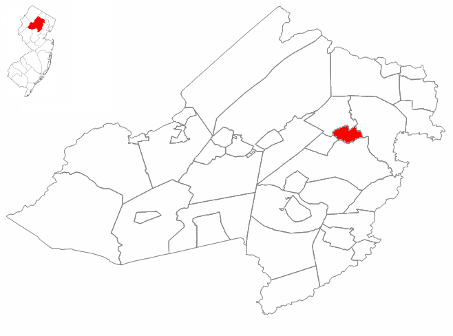 Position of Boonton (highlighted in red) in Morris County. Morris County's position in New Jersey is in turn highlighted in red.